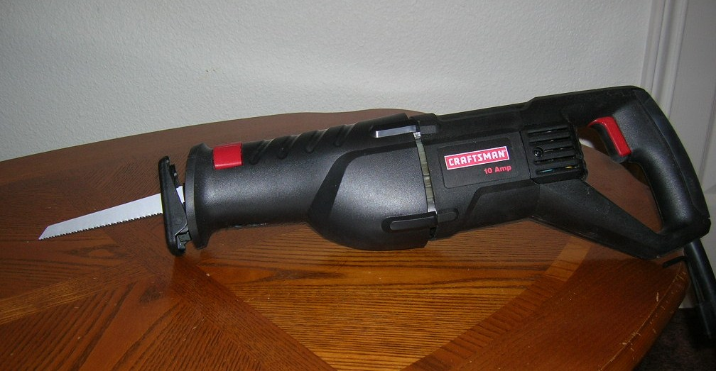 Reciprocating saw